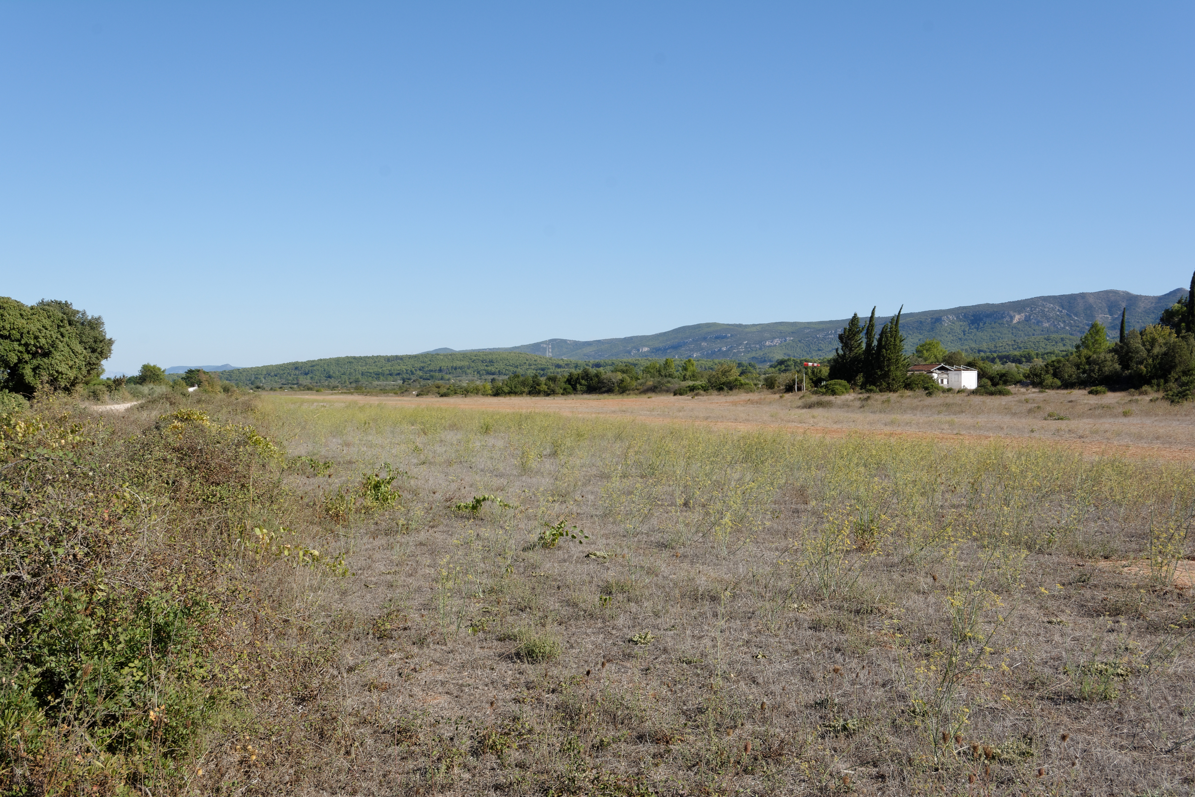 Airport of Hvar (ICAO code LDSH), Island of Hvar, Croatia.